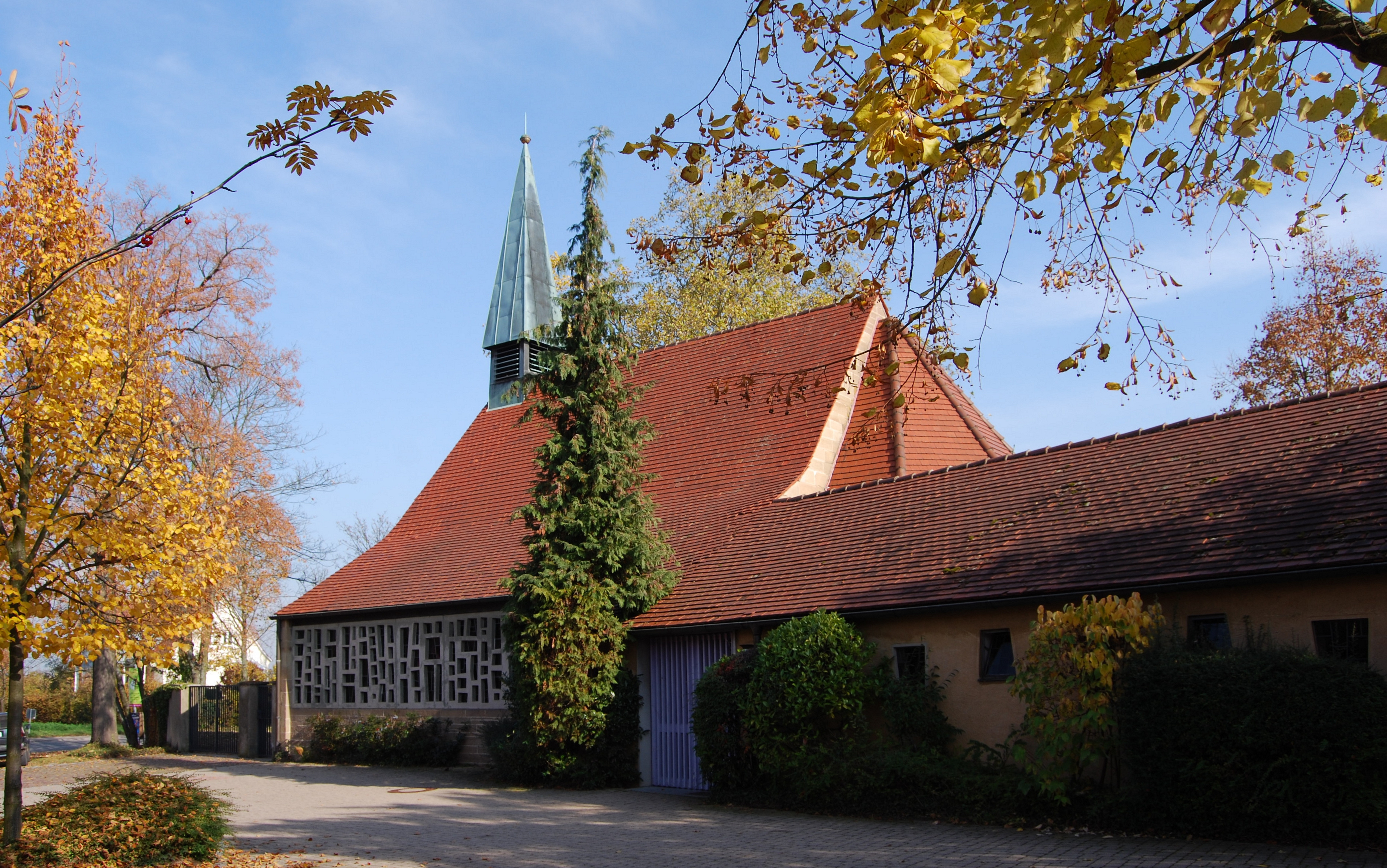 Cemetery chapel in Bönnigheim, Baden-Württemberg.